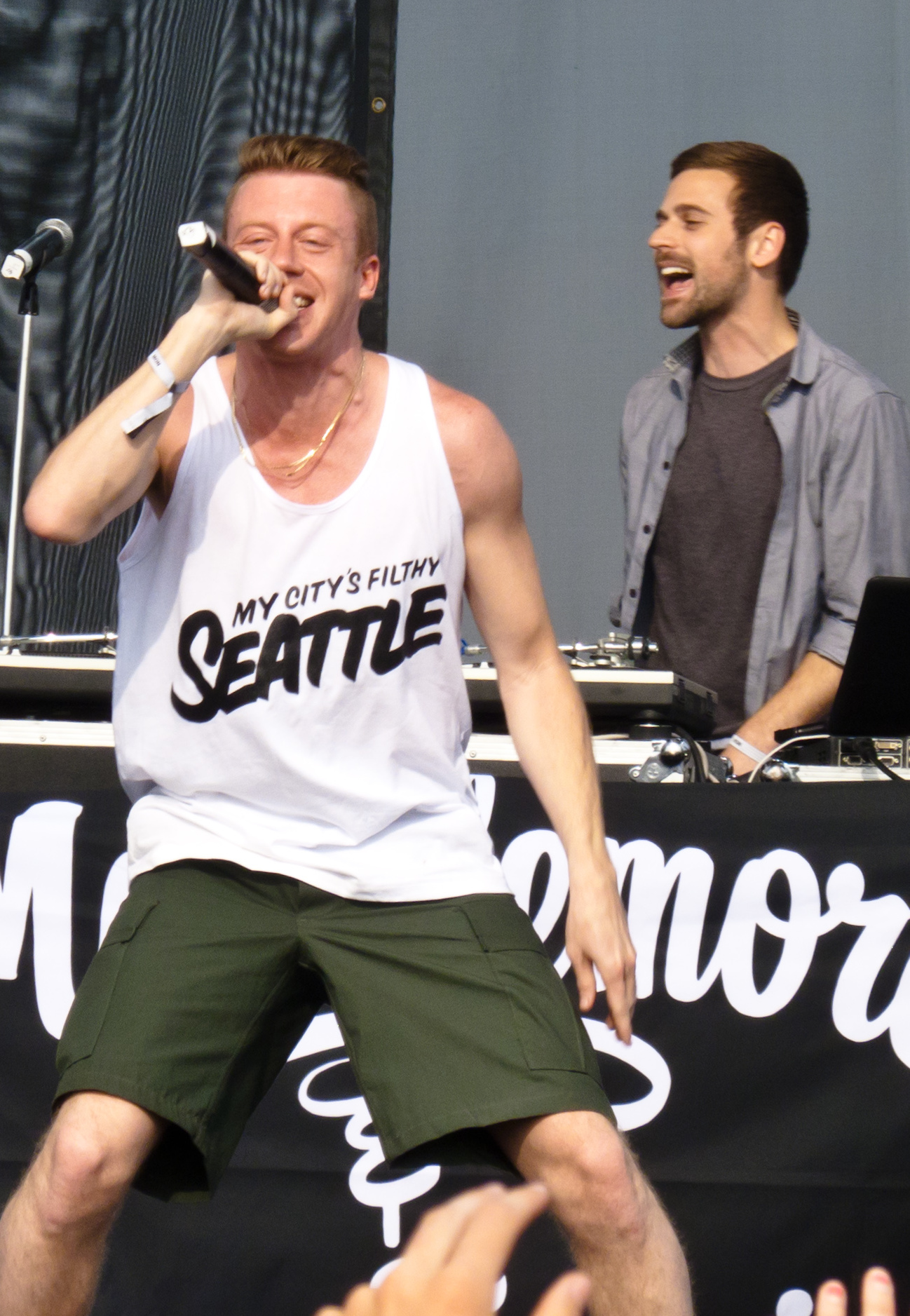 Macklemore & Ryan Lewis performing at Sasquatch 2011